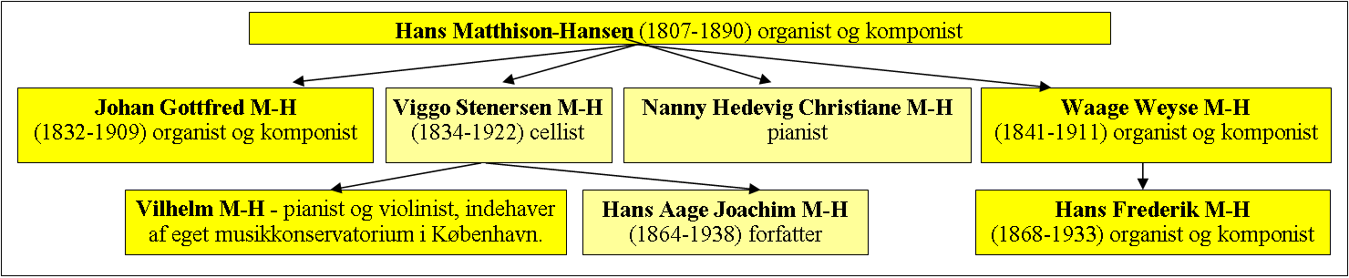 A family of musicians and composers etc.